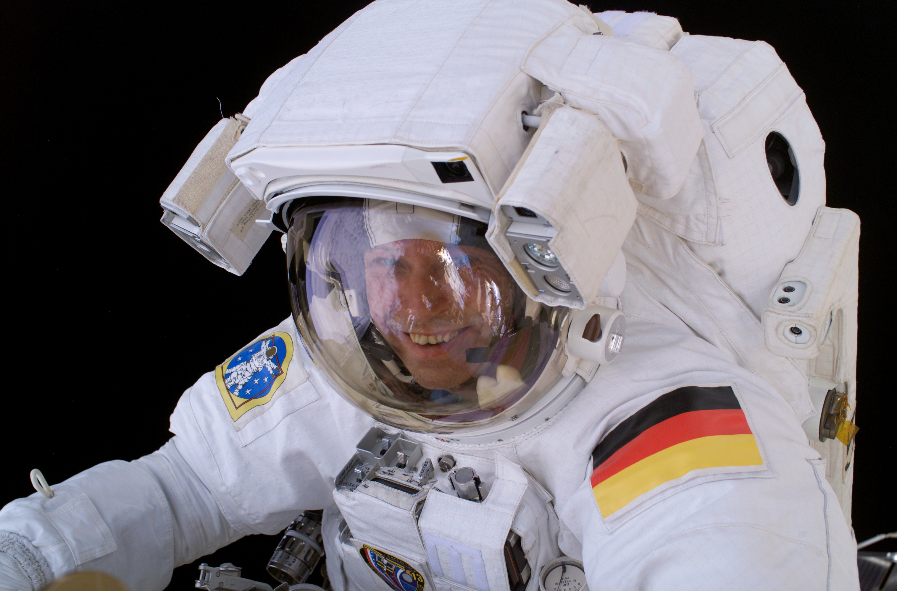 ISS013-E-63402 (3 August 2006) --- Astronaut Thomas Reiter, who represents the European Space Agency on the Expedition 13 crew, is photographed during a 5-hour, 54-minute excursion which he shared with astronaut Jeffrey N. Williams (out of frame). For part of the spacewalk, the pair worked closely in tandem, and then worked separately, getting ahead of their timeline, thus enabling the two to tack on extra tasks.